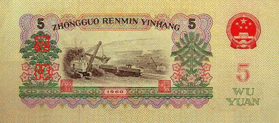 Third series of the renminbi 5yuan(sample)